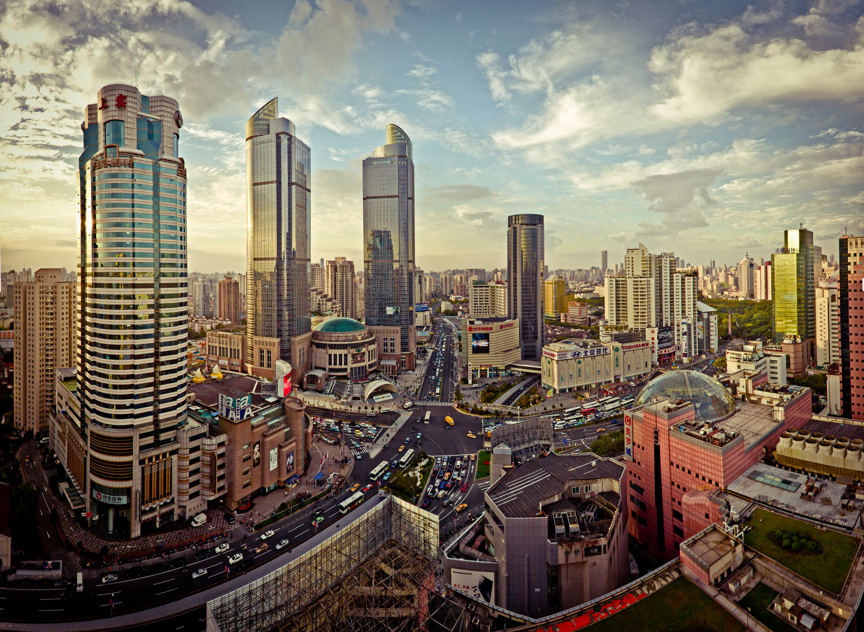 Xujiahui district in Shanghai, China.